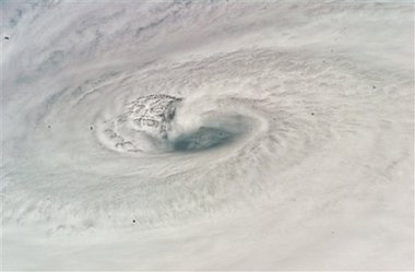 This is a photograph of Hurricane Dean taken by crewmembers on the Space Shuttle Endeavour. The photograph was distributed by the Associated Press via the AP website, Yahoo News, and other sites.